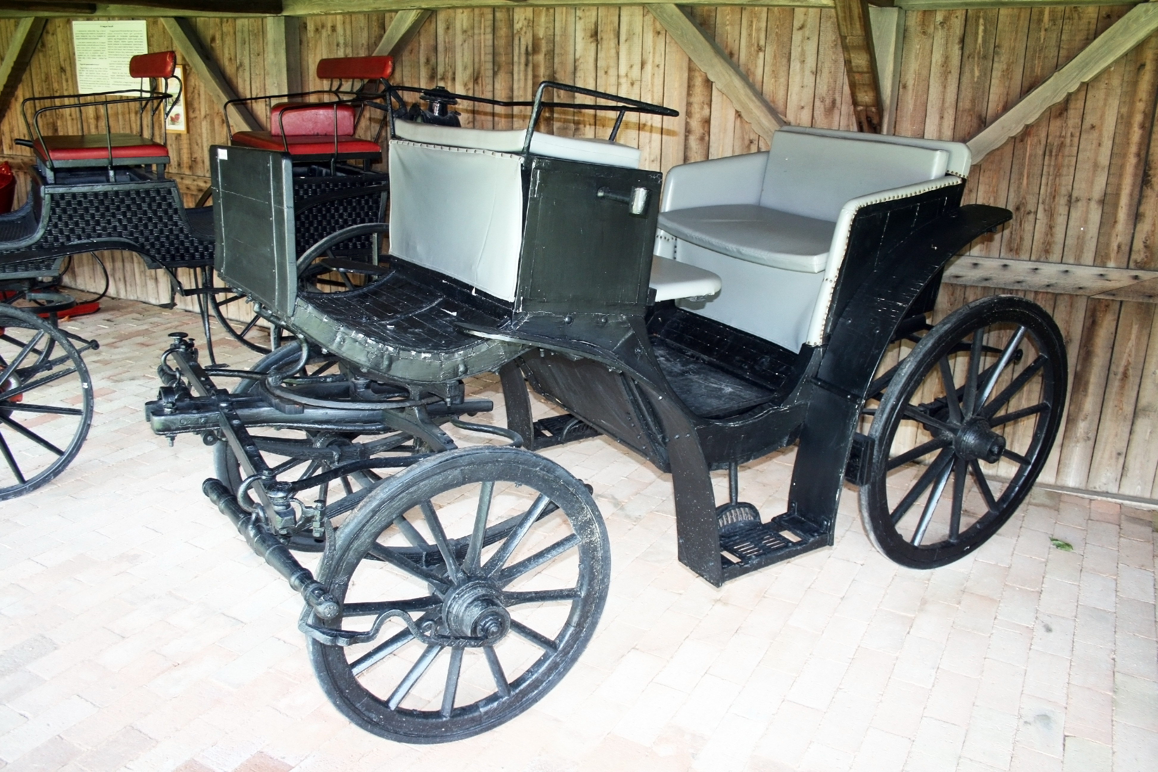 Victoria coach